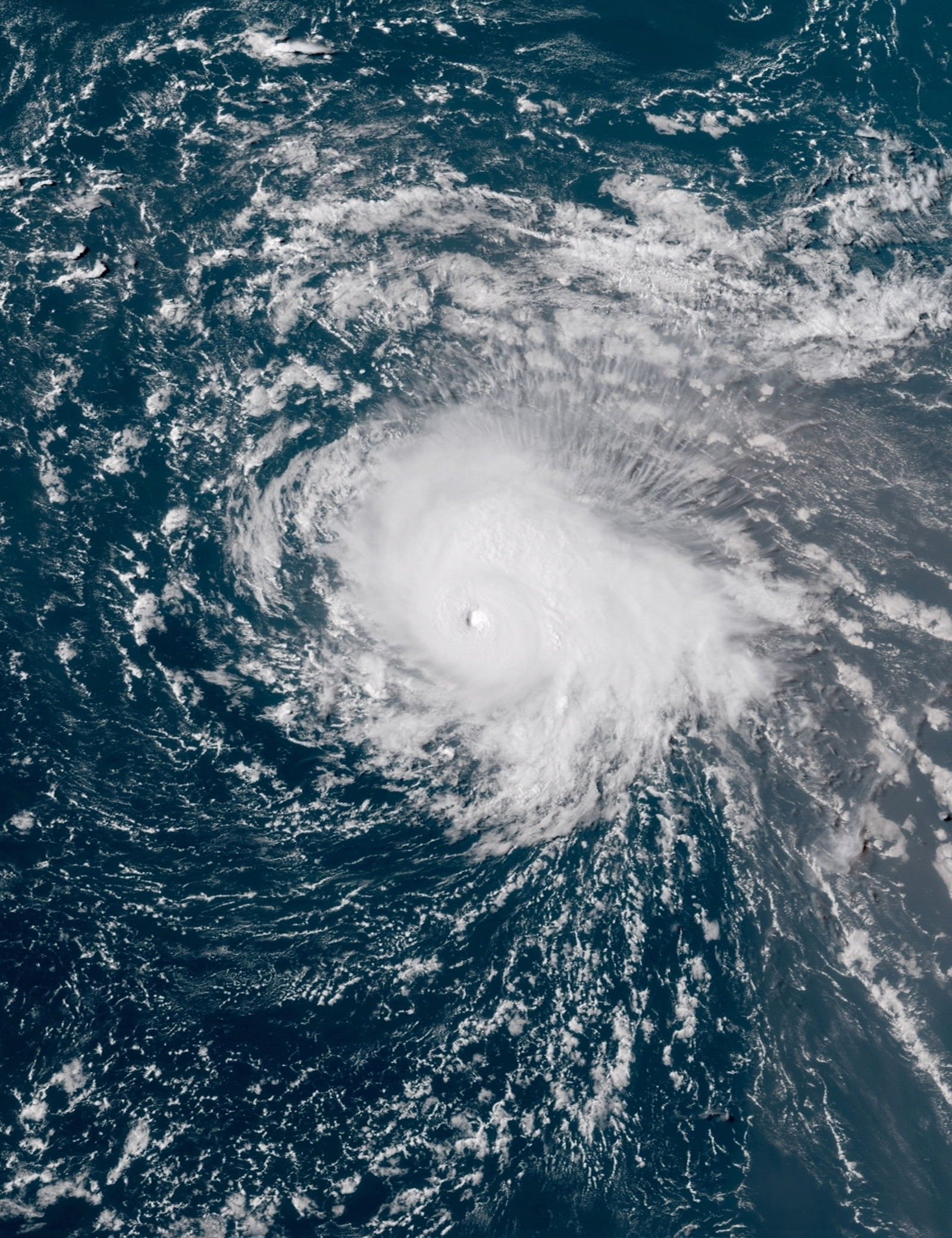 Hurricane Florence as a Category 4 hurricane in the central Atlantic Ocean on September 5, 2018